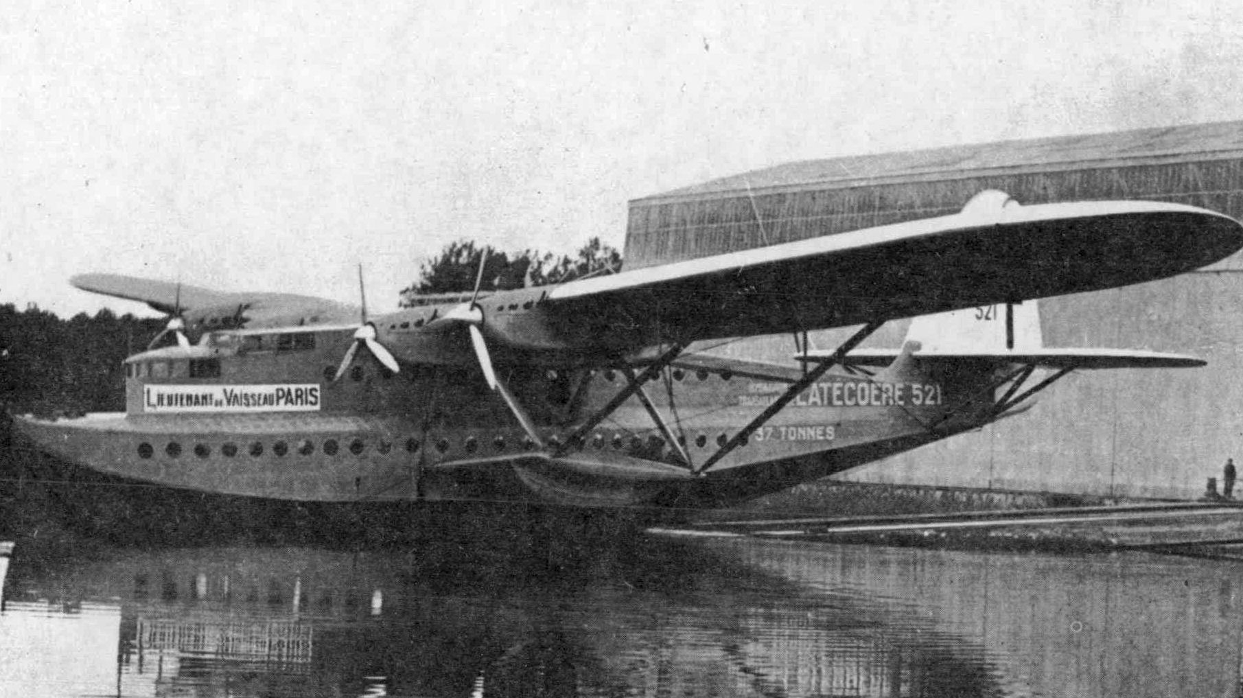 Latécoère 521 photo from NACA-AC-202